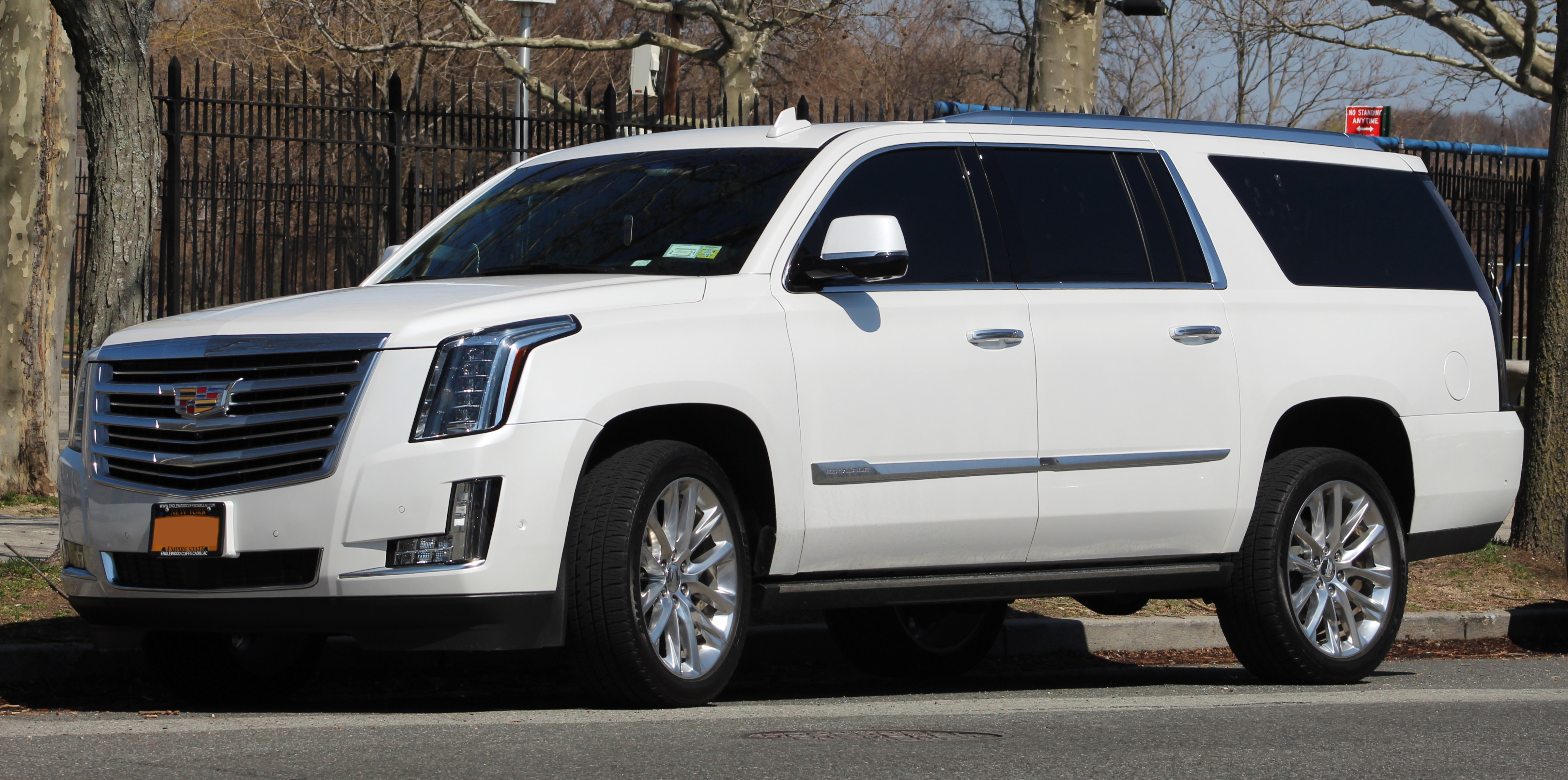 A 2018 Cadillac Escalade ESV photographed in Flushing, Queens, New York, USA